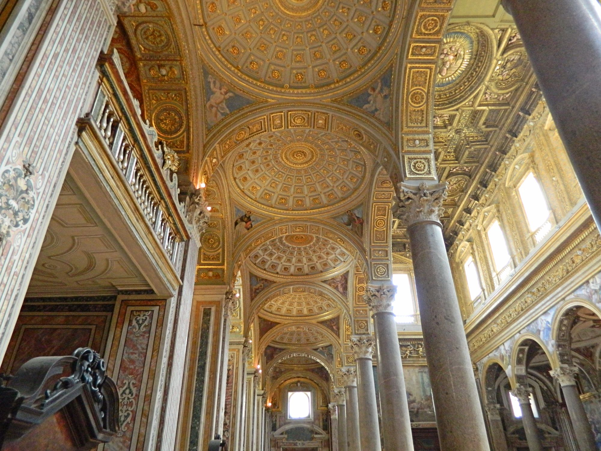 Chiesa dei Girolamini (Napoli) - Vista della navata destra